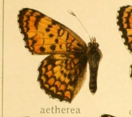 Melitaea phoebe Knoch f. aetherea Ev. = Melitaea phoebe (Goeze, [1779]) f. aetherea